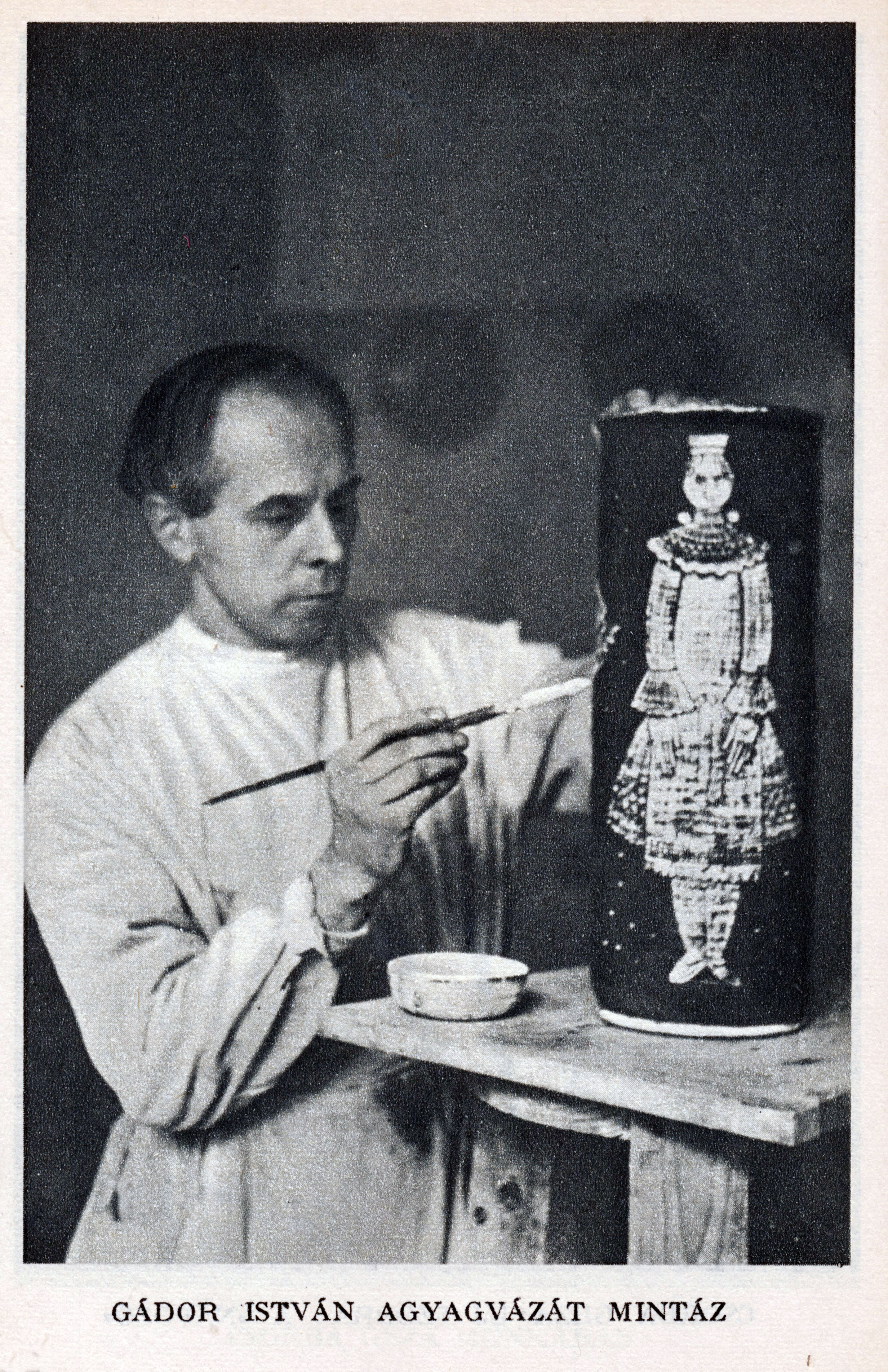 Istvan Gadory Hungarian sculptor - during sculptures